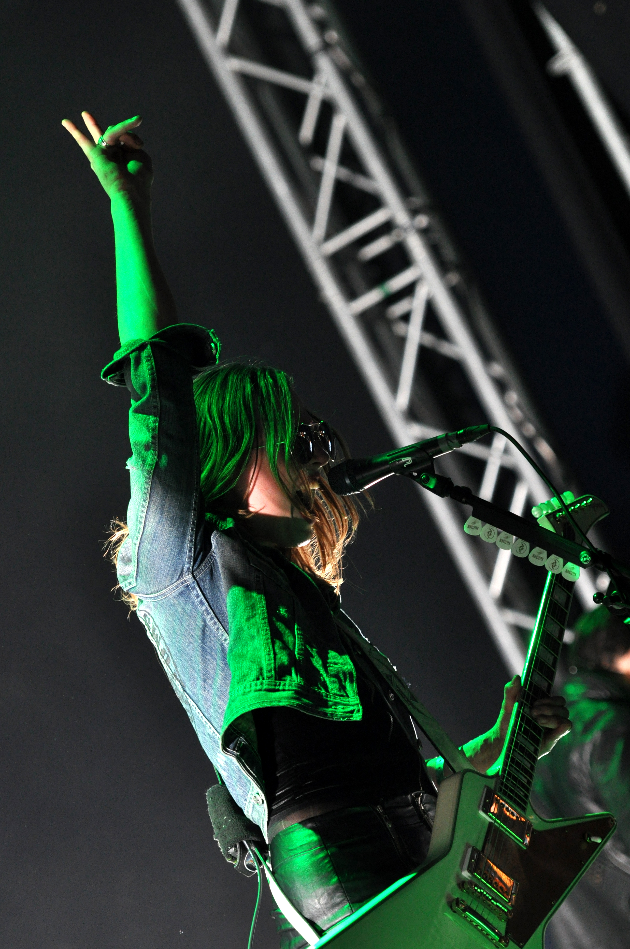 Halestorm at Paaspop 2014